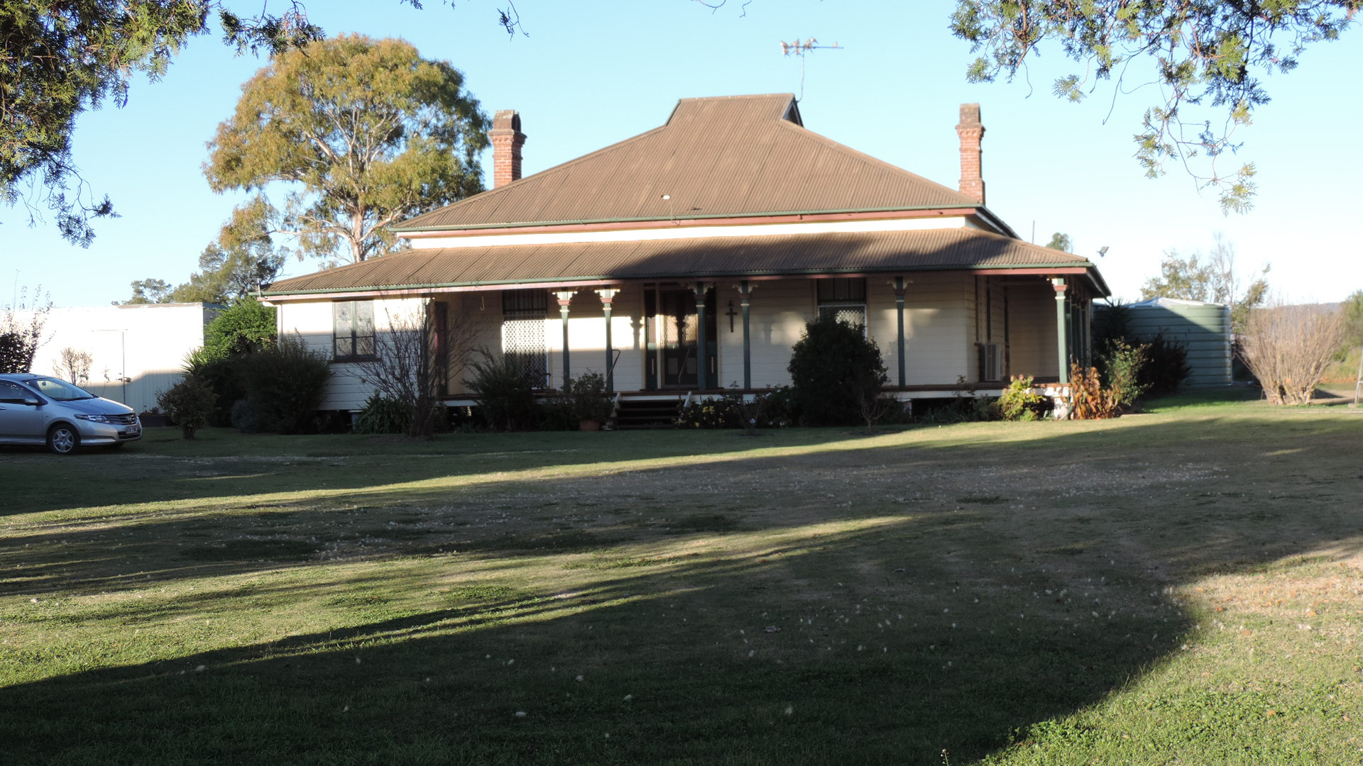 Rectory, St Davids Anglican Church, Allora, 2015